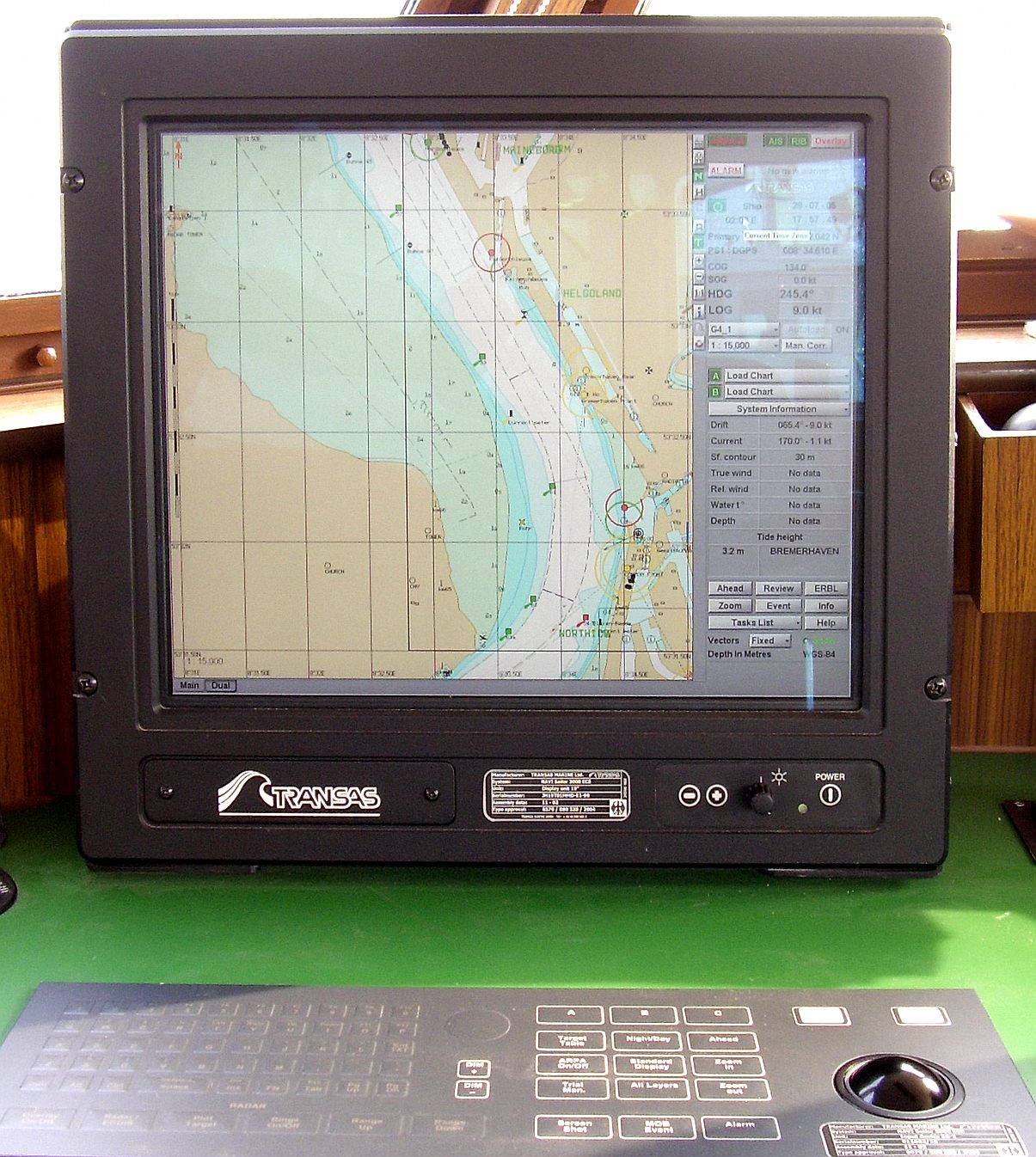 A Transas Ecdis System Date: July 17th 2006 Photographer: Doclecter